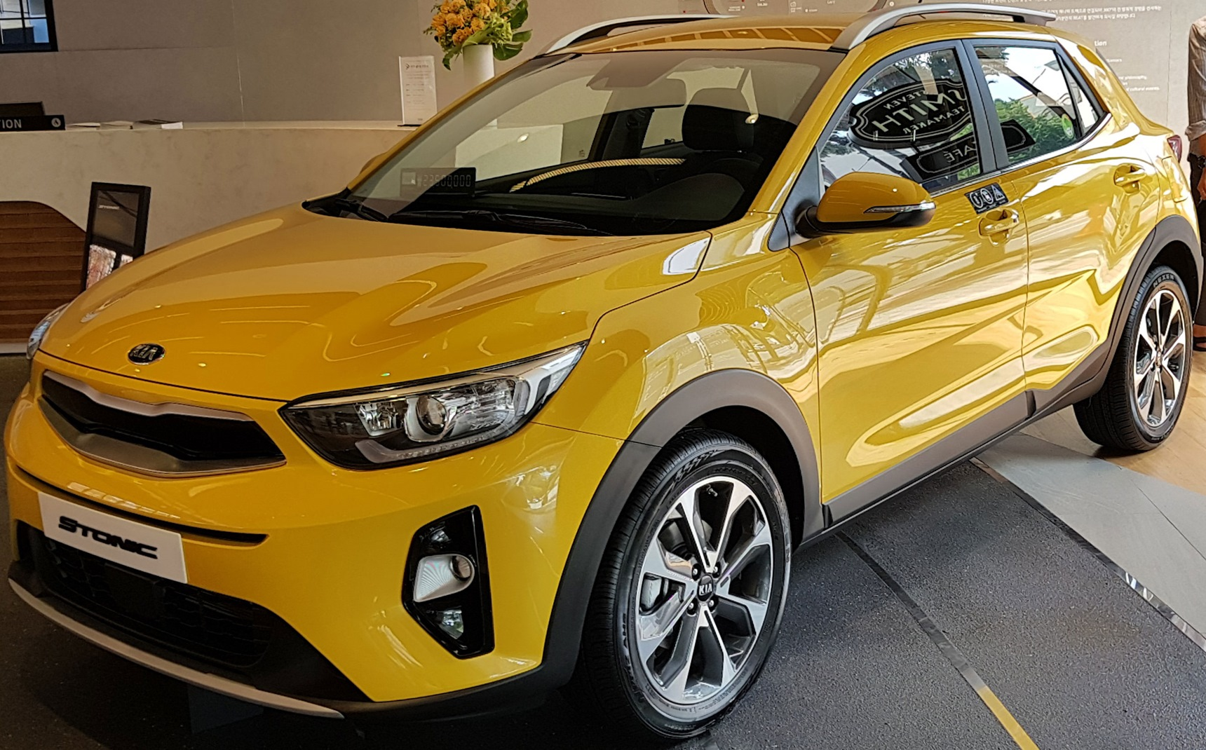 Kia Stonic